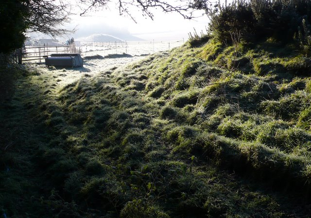 Soil Creep Tracks near Kingston Russell The tracks caused by soil creep (similar to solifluction on a small scale) caused by sheep constantly moving along the contours of a slope are highlighted by the dawn sun on a cold and frosty morning. This is on the side of one of many of the barrows that exist in this immediate area. Another one can be seen in the distance.